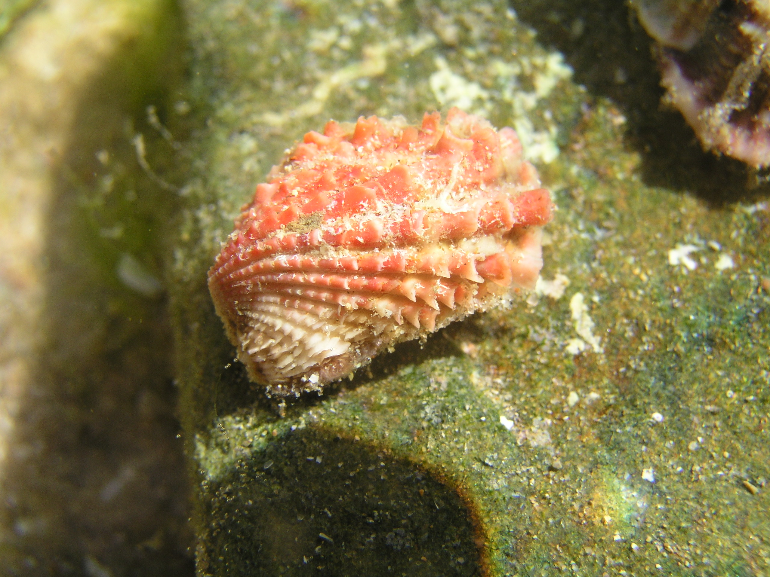 Diggers Camp molluscs.